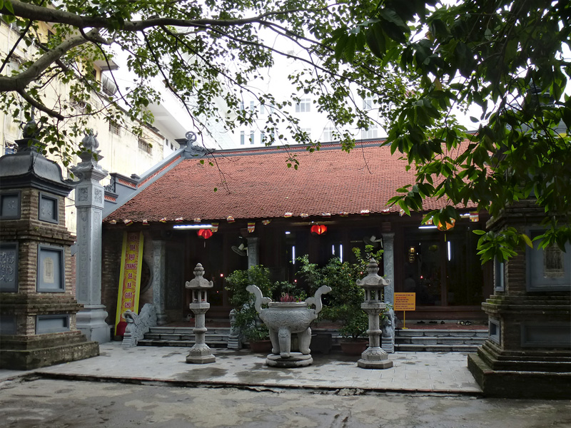 Bà Đá Buddhist Temple, Hanoi, Vietnam.